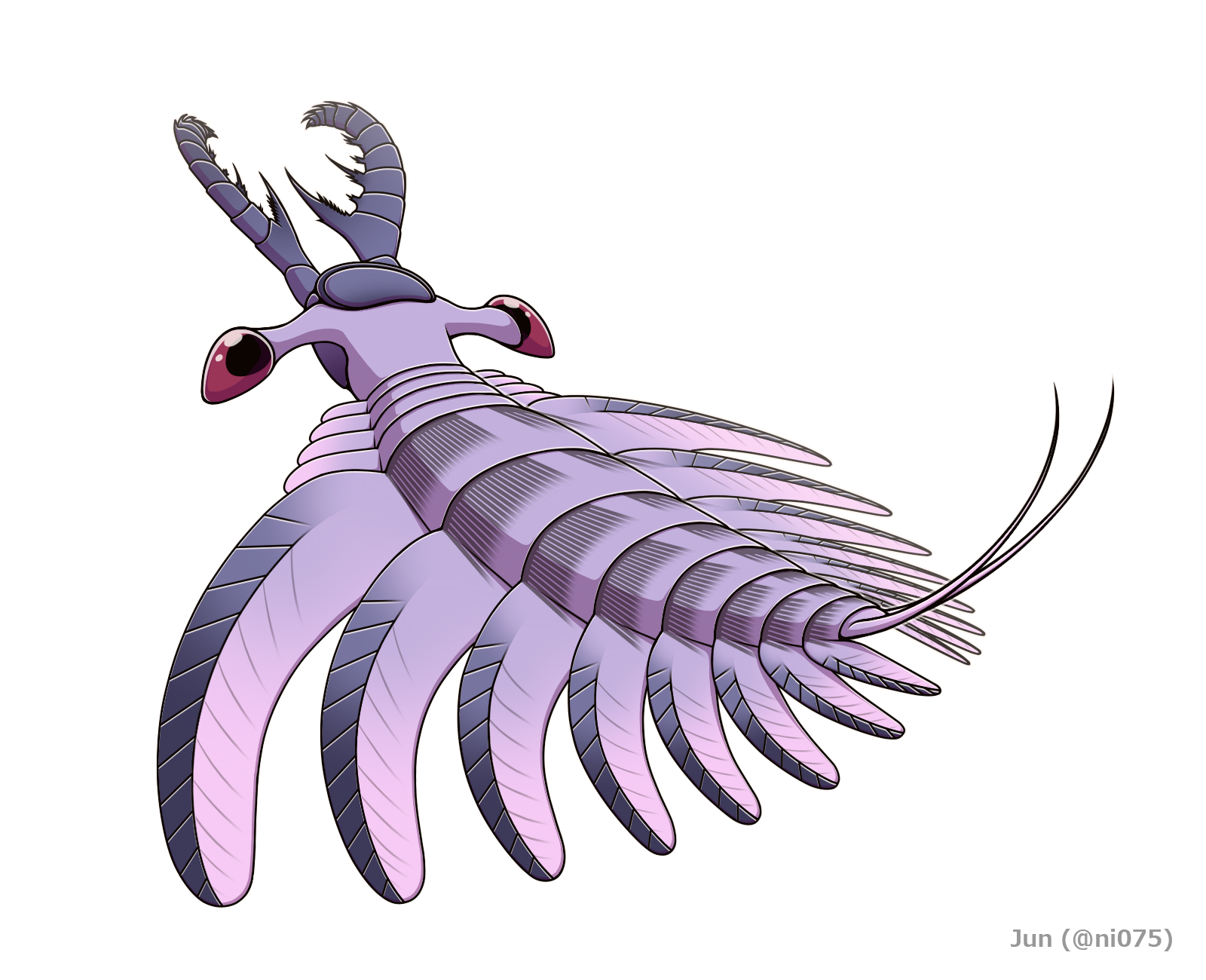 Reconstruction of Lyrarapax unguispinus, a cambrian radiodont (dinocaridid、stem-group arthropod)